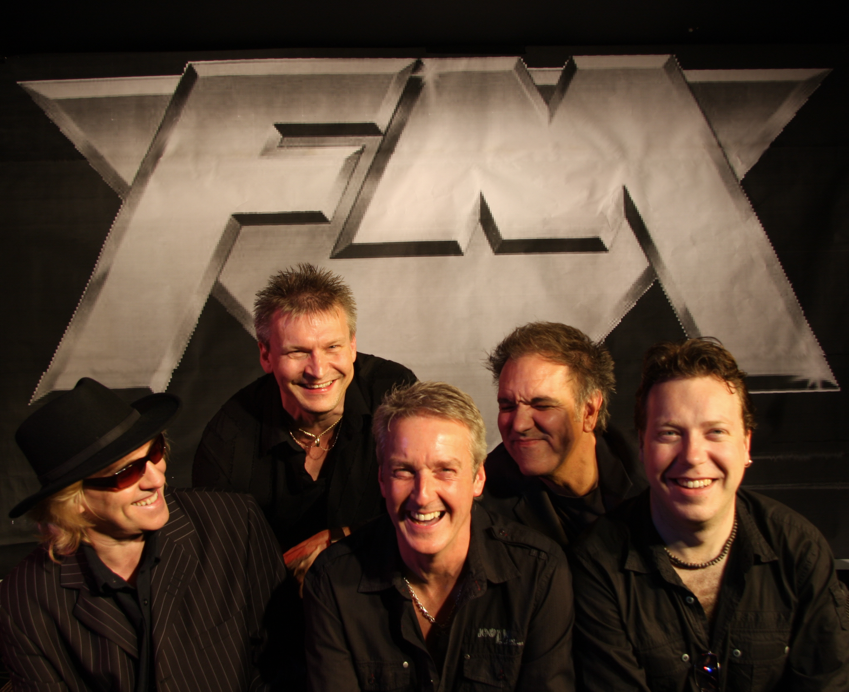 UK band FM at the video shoot for Wildside - Crewe 26th July 2009